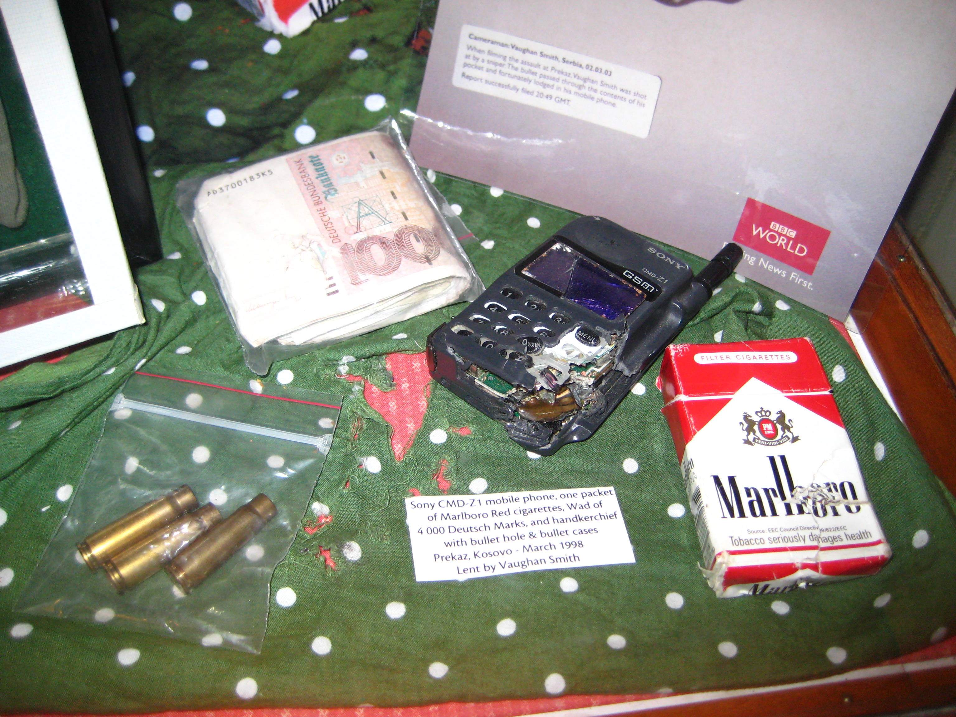 Display of at the Frontline Club in London, England featuring Camerman Vaughan Smith's mobile telephone, fold of German Deutsche Mark bank notes and packet of Marlboro cigarettes, all of which took the impact of a bullet from a sniper who was shooting at him in Kosovo in the year 1998.